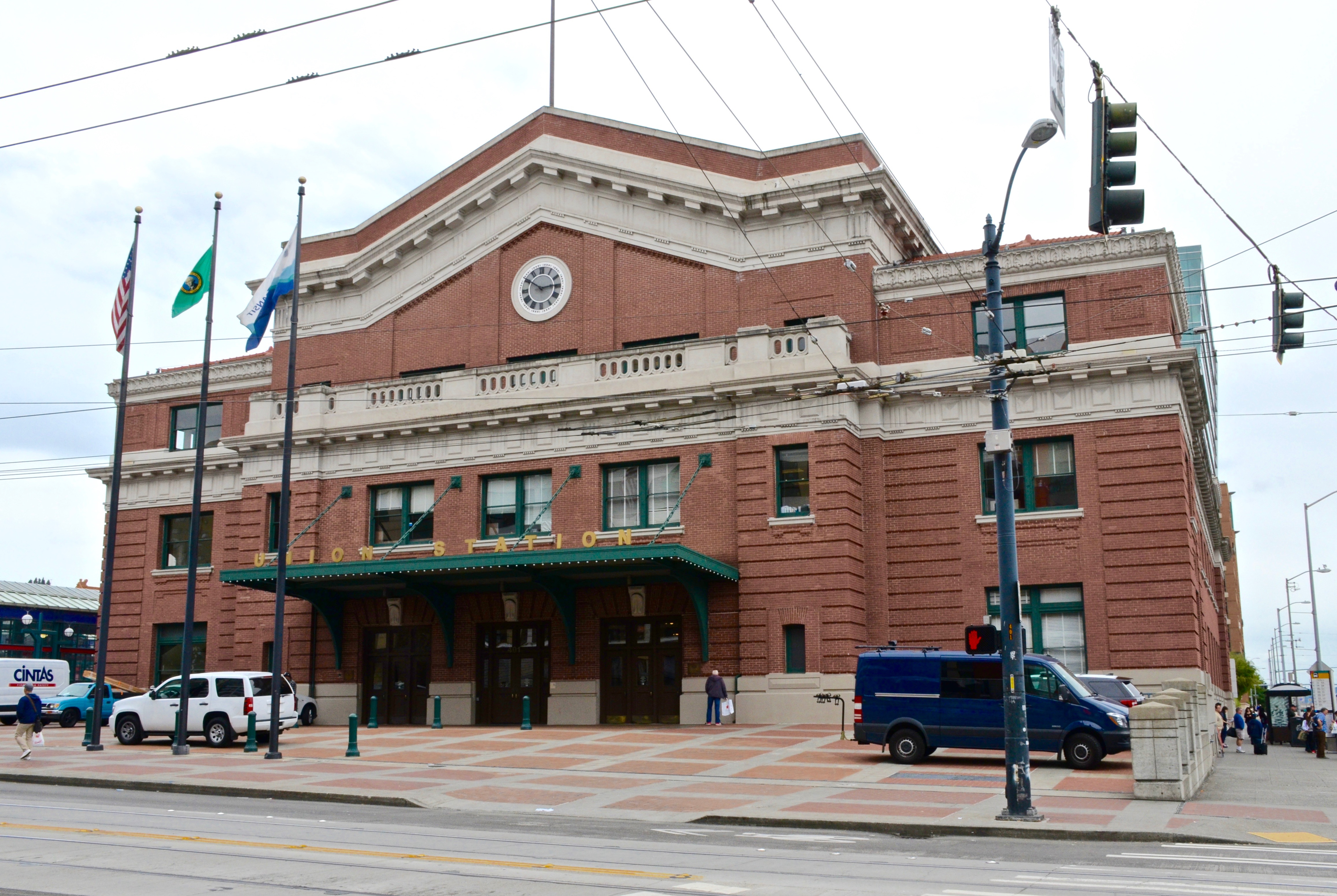 Union Station in Seattle, viewed from across Jackson Street at 4th Avenue. The building was last used as a railroad station in 1971. Since 1999, its primary use has been as the main administrative offices of Sound Transit.